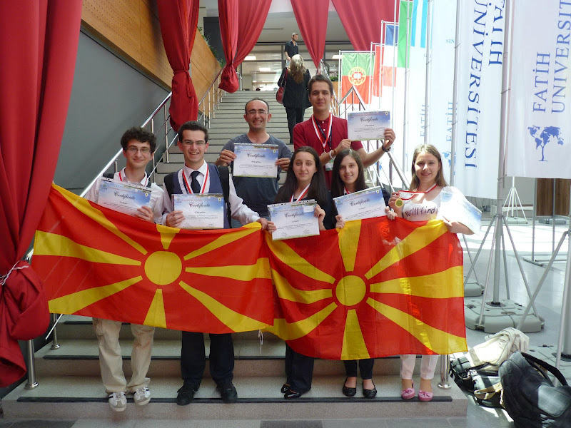 Students at INEPO awarding ceremony